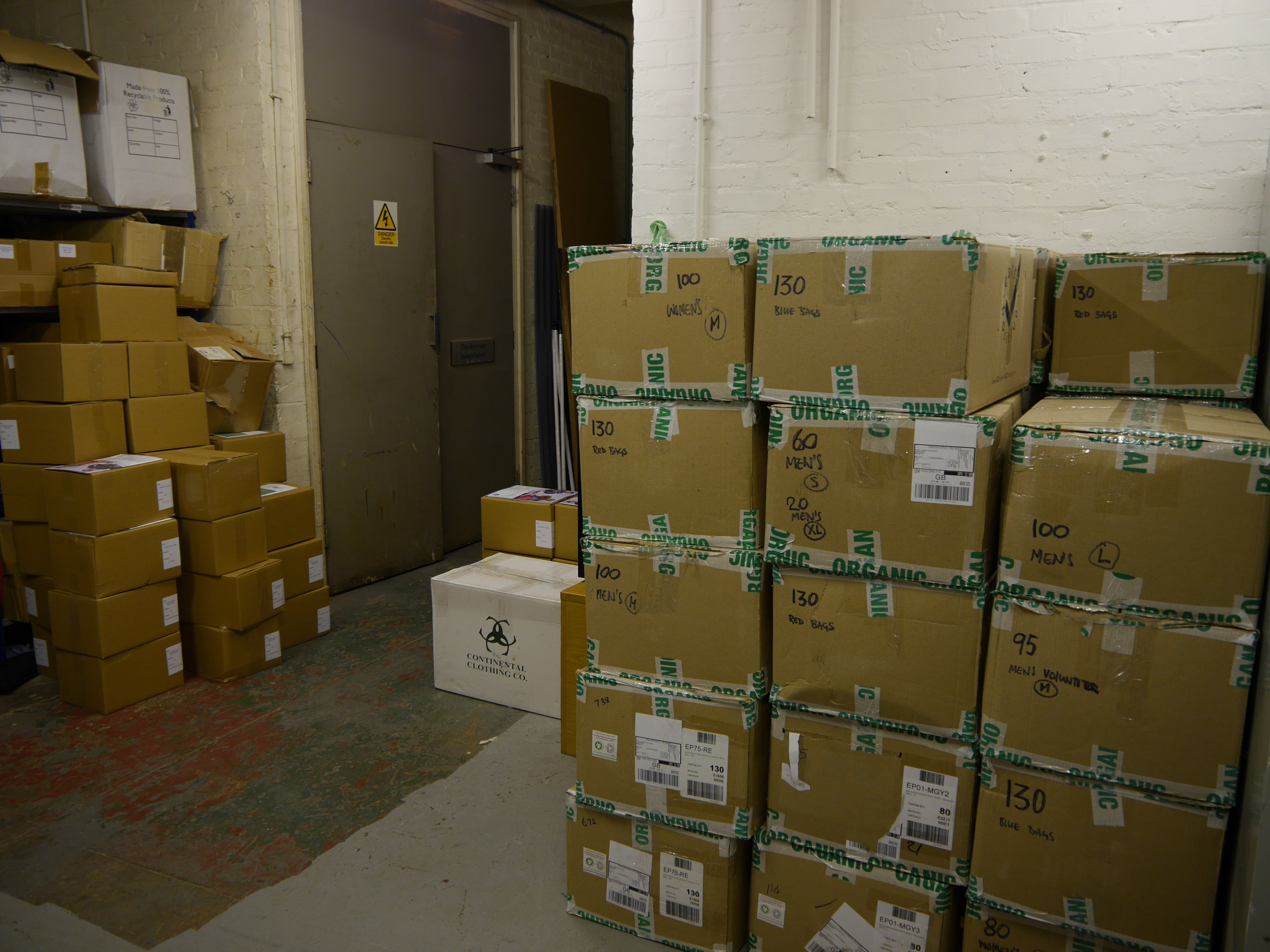 Boxes of bags, t-shirts and booklets for Wikimania 2014 in the basement storage area of Development House